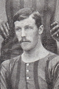 Tommy Davidson while with Brentford FC 1903/04